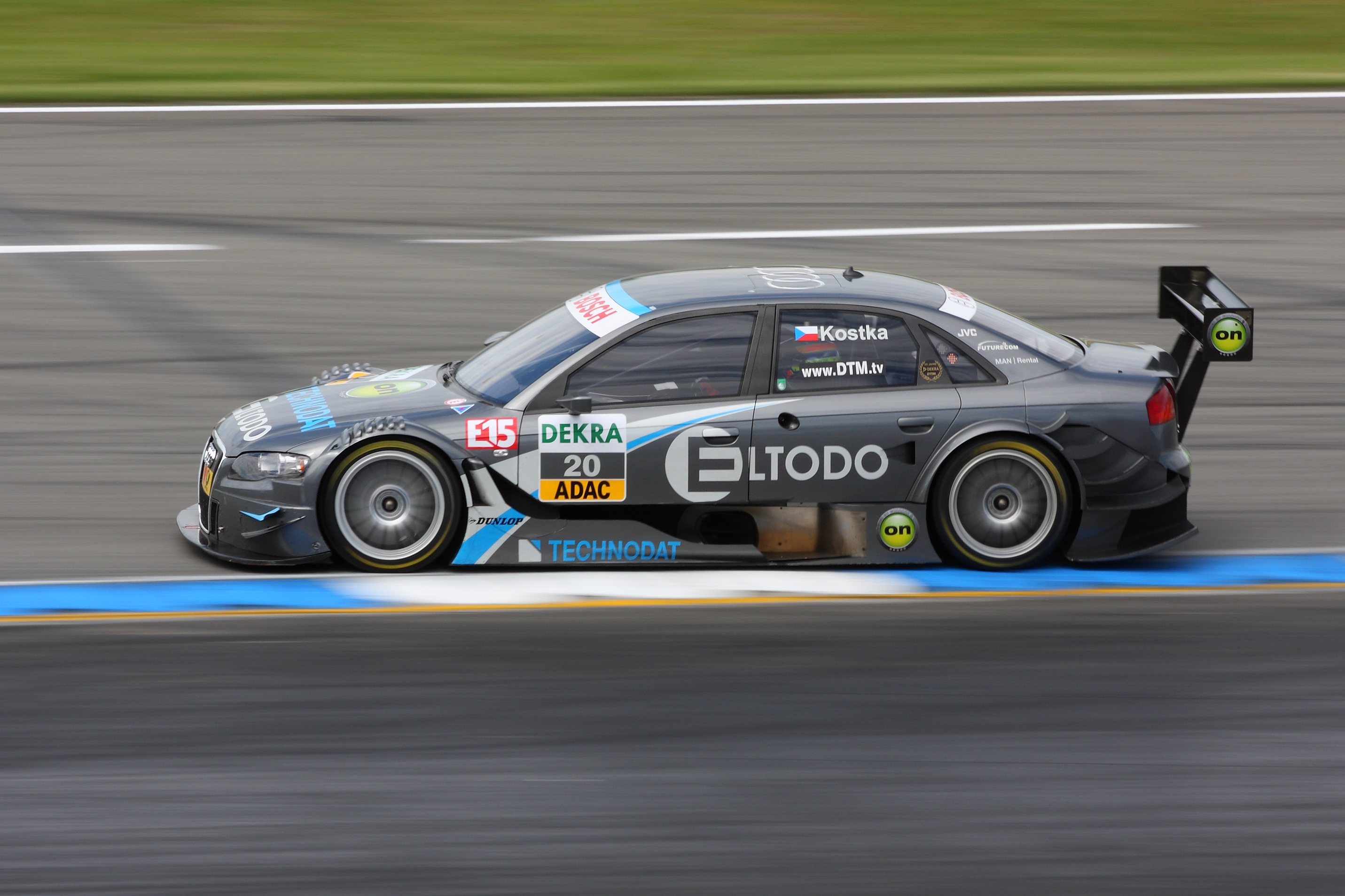 DTM racing car Audi Season 2009, Tomas Kostka (driver).